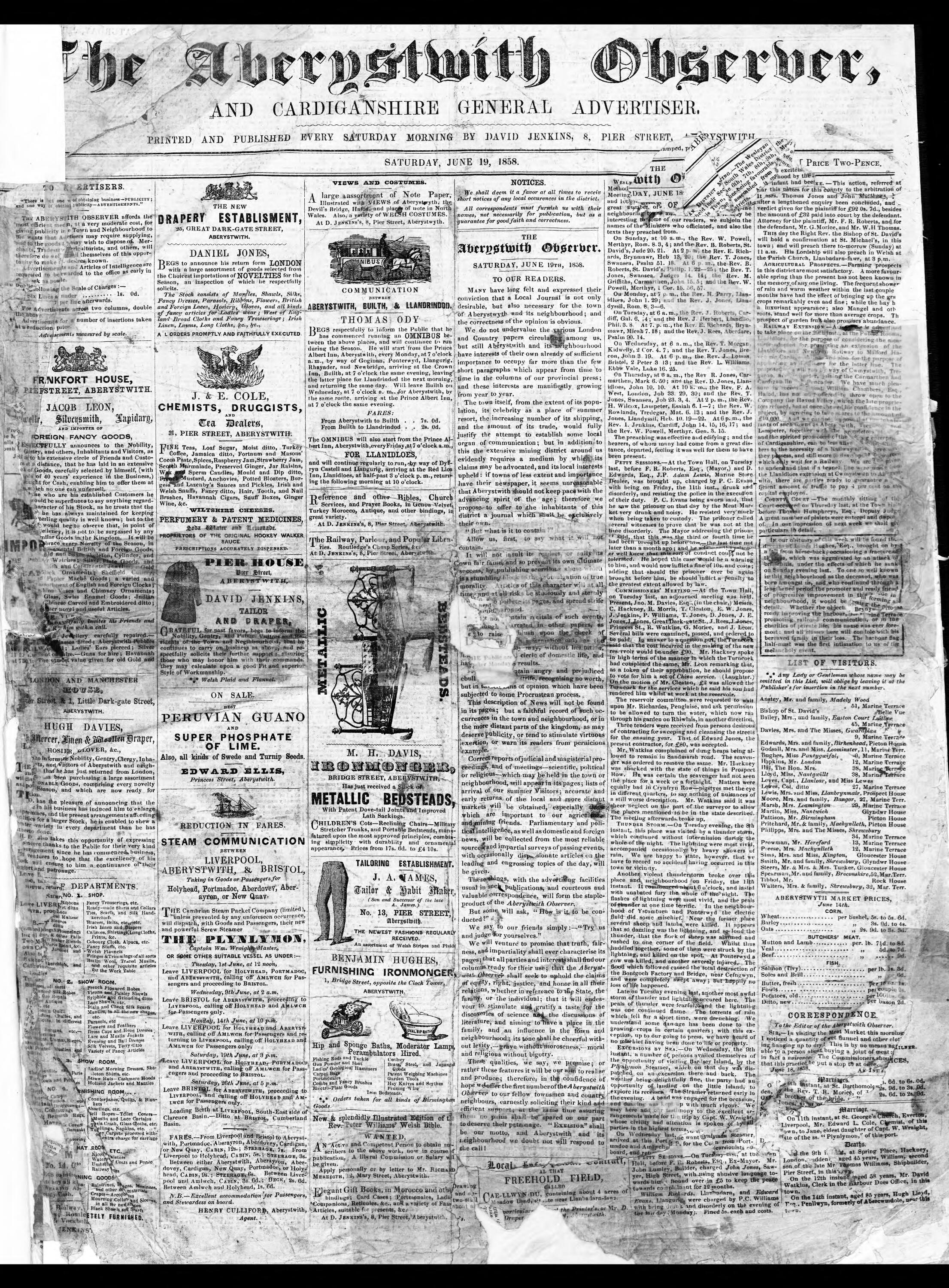 Front page of the earliest surviving copy of the Welsh newspaper The Aberystwyth Observer